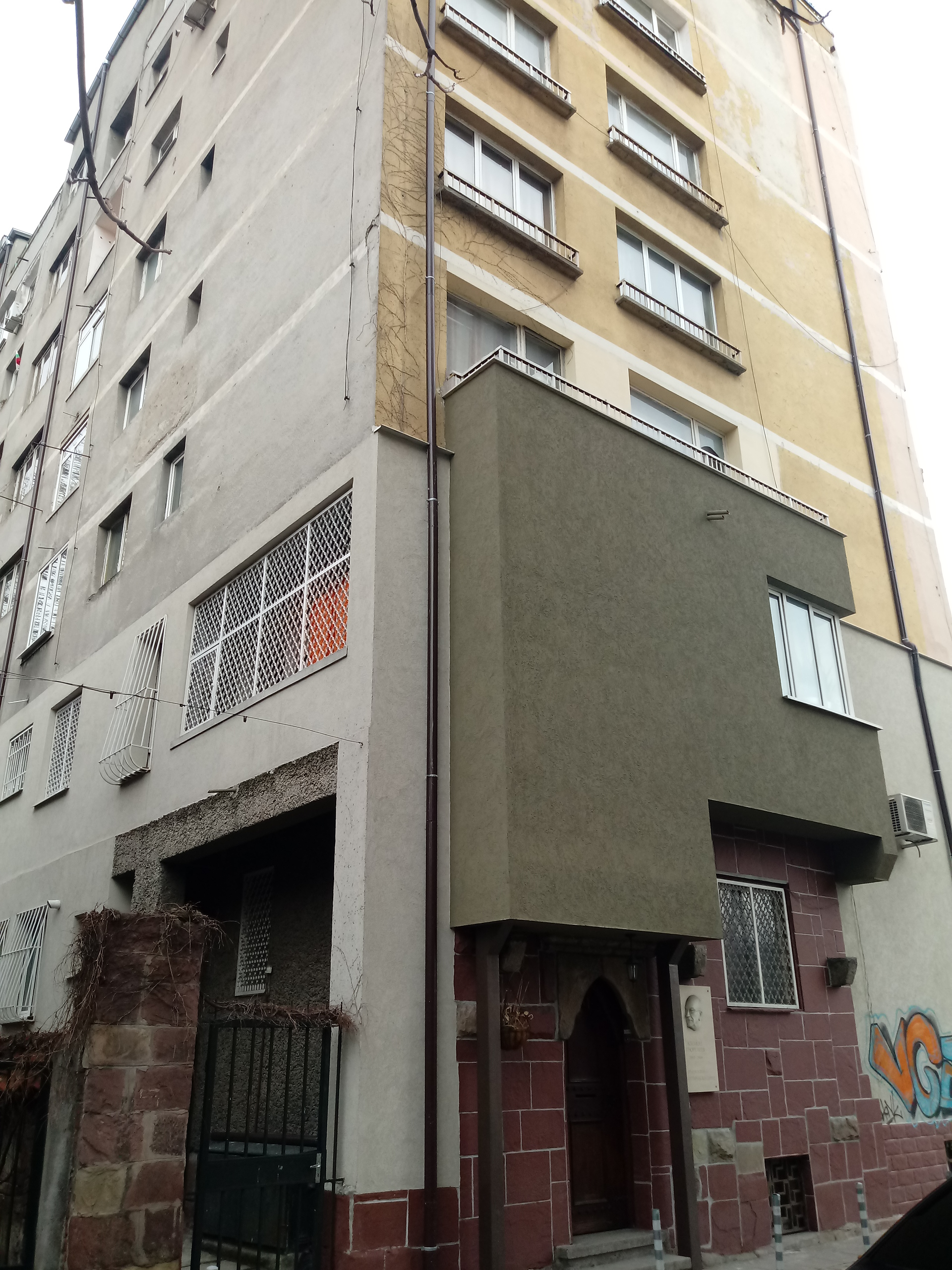 Kimon Georgiev home with memorial plaque, 11 Geneva Str, Sofia